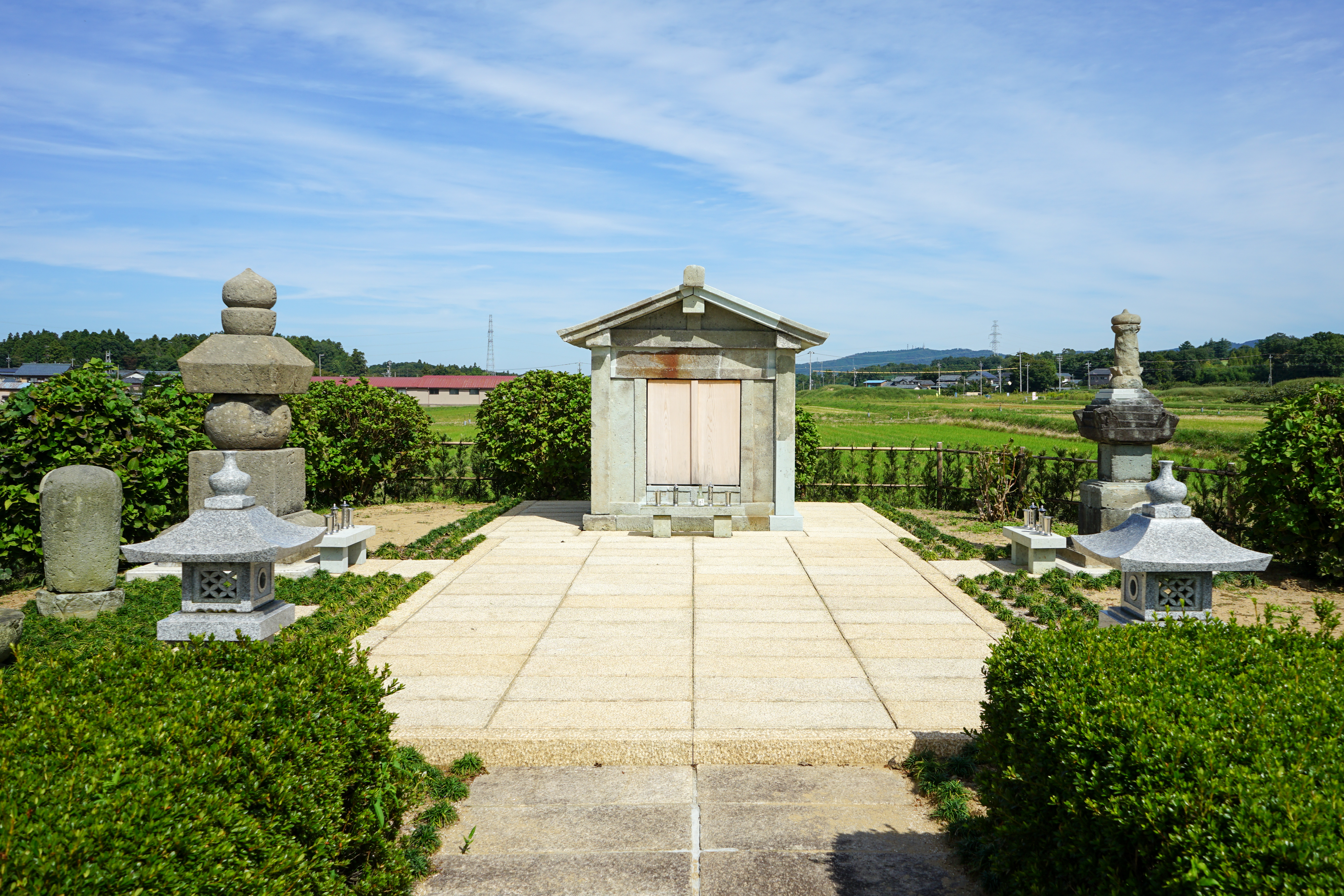 Tomb of Tagaya Mitsutsune, Kakibara, Awara-shi, Fukui Pref., Japan